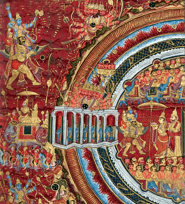 Krishna Storms the Citadel of Naraka Bhagavata Purana, Mysore, c. 1840